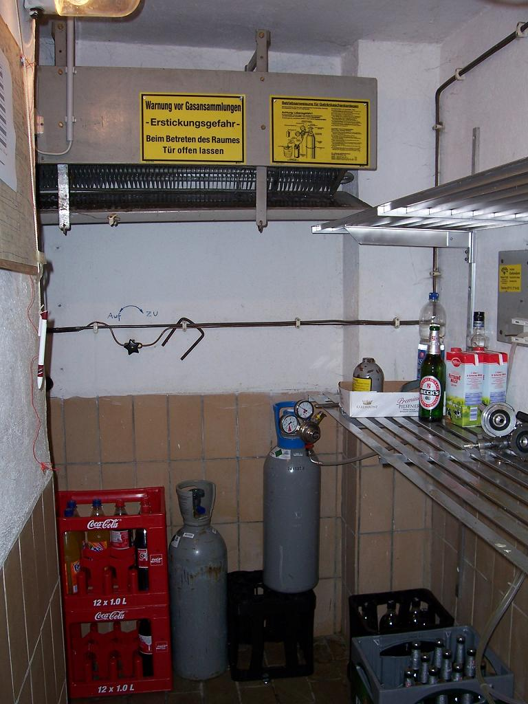 Cold storage room